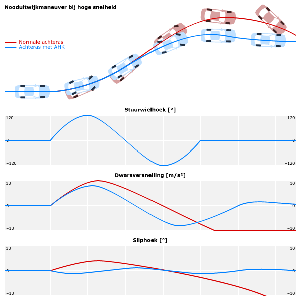 Difference in stability between a vehicle without and with AHK rear axle in an emergency high-speed lane-change maneuver. The image and contained graphs are not derived from accurately measured data and should not be interpreted as such. The image shows a simplified situation to help understand the influence of AHK on the stability during cornering. The image was drawn based on data and graphs shown during a presentation about AHK during the ClubE31 Europe Meeting 2007 Munich. The presentation was given by one of the engineers who was responsible for the development of AHK at BMW.